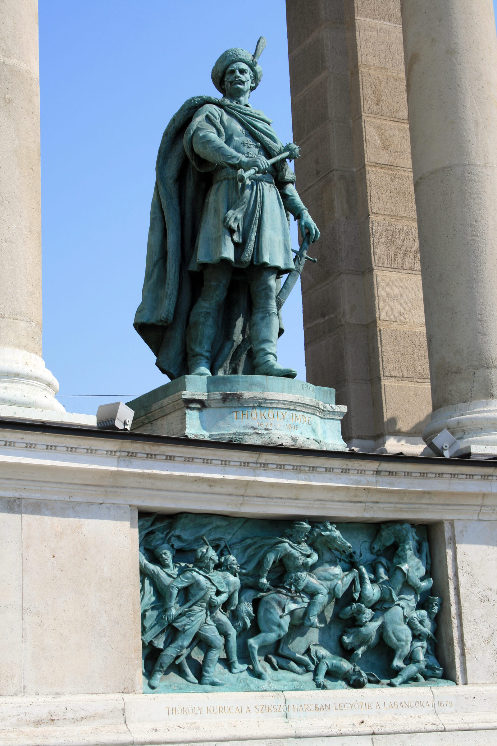 Statue of Imre Thököly - Imre Thököly, Millenium Monument on Heroes' square, Budapest, Budapest, Hungary